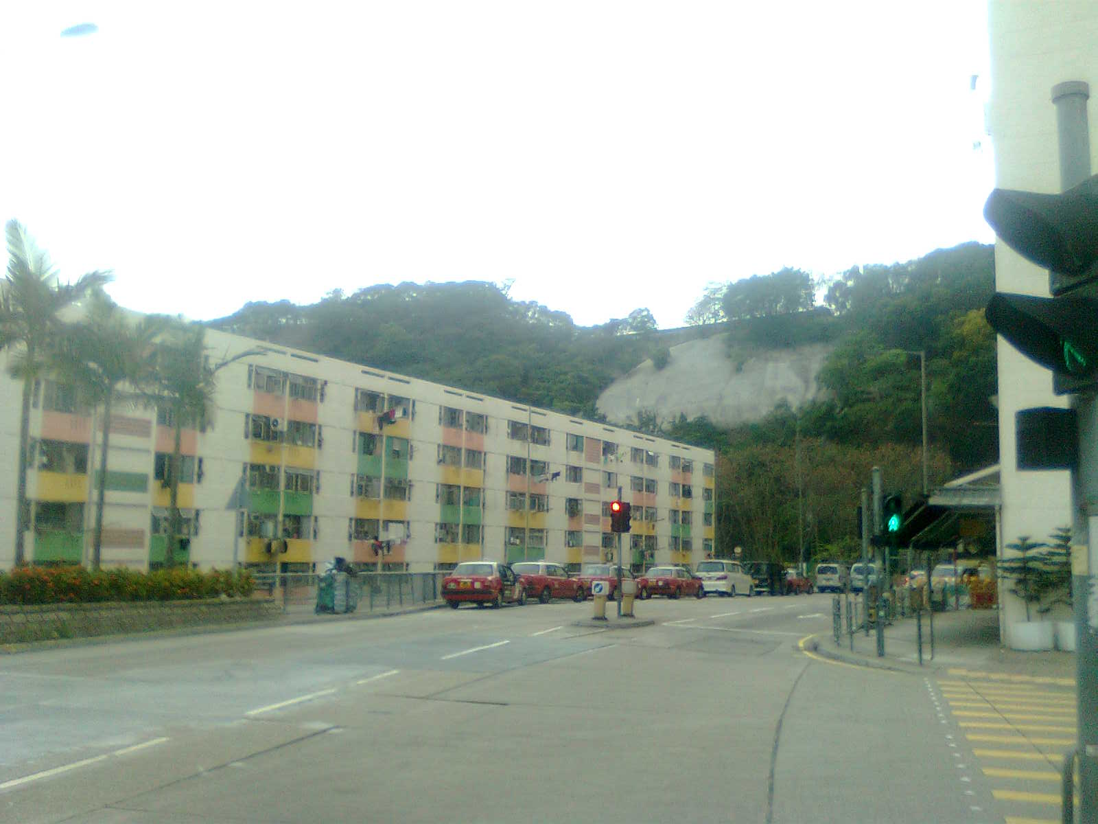 Pak Tin Estate, in Shek Kip Mei, Hong Kong